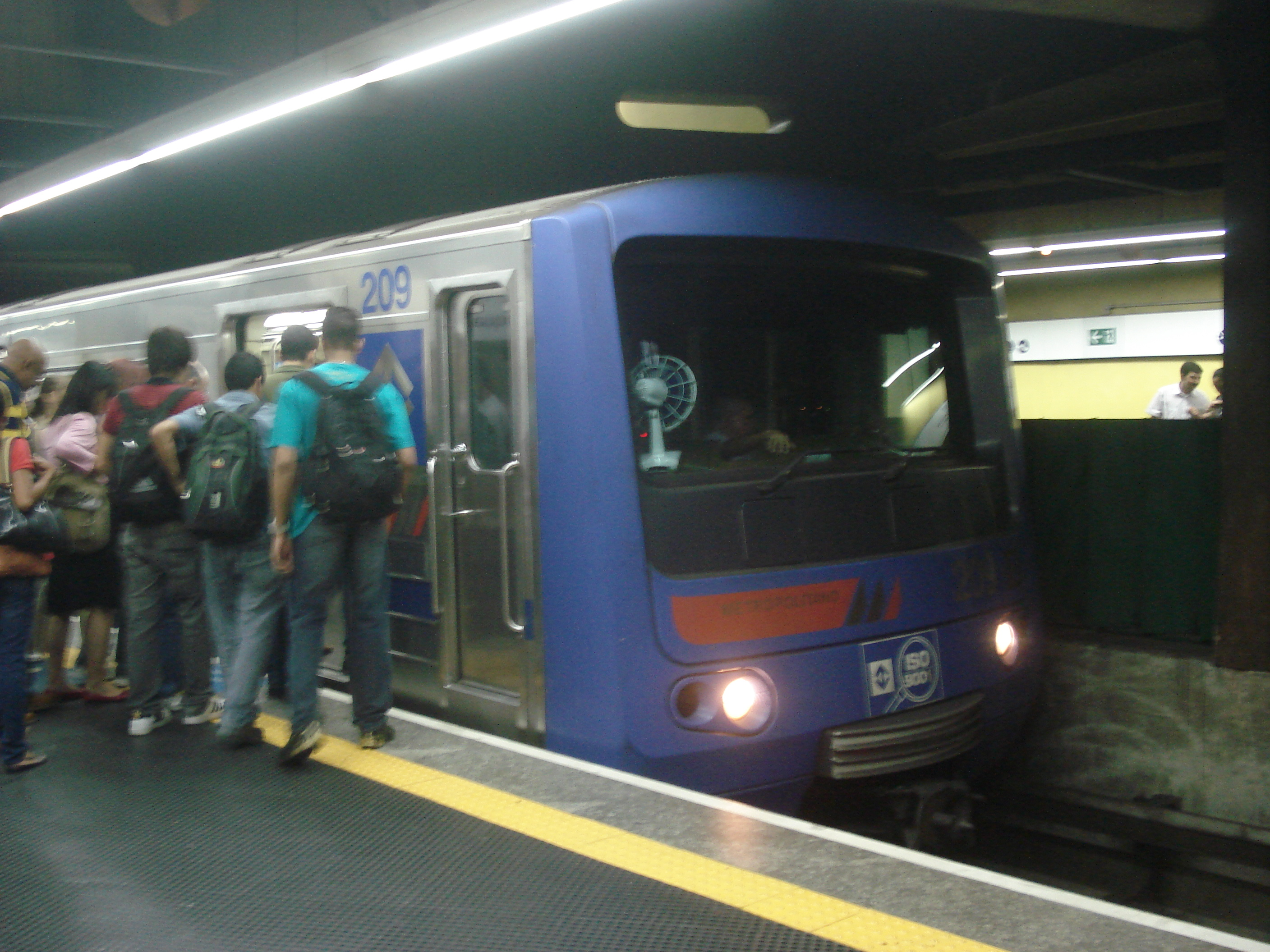 Alstom Millenium train stopped in Paraíso Station, Line 2 - Green of São Paulo Metro.